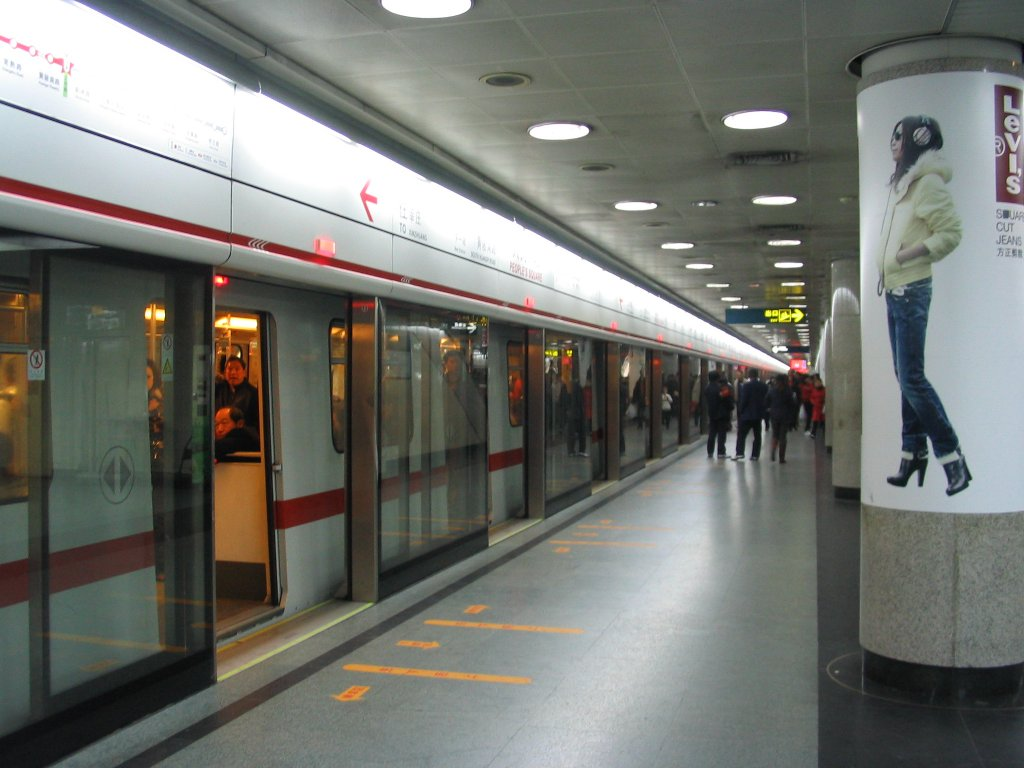 人民廣場站-1號線月台 Line 1 Platform of People's Square Station